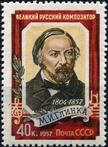 USSR stampː Mikhail Glinka. Seriesː 100th Death Anniversary of Mikhail Glinka, the fountainhead of Russian classical music (1804-1857)